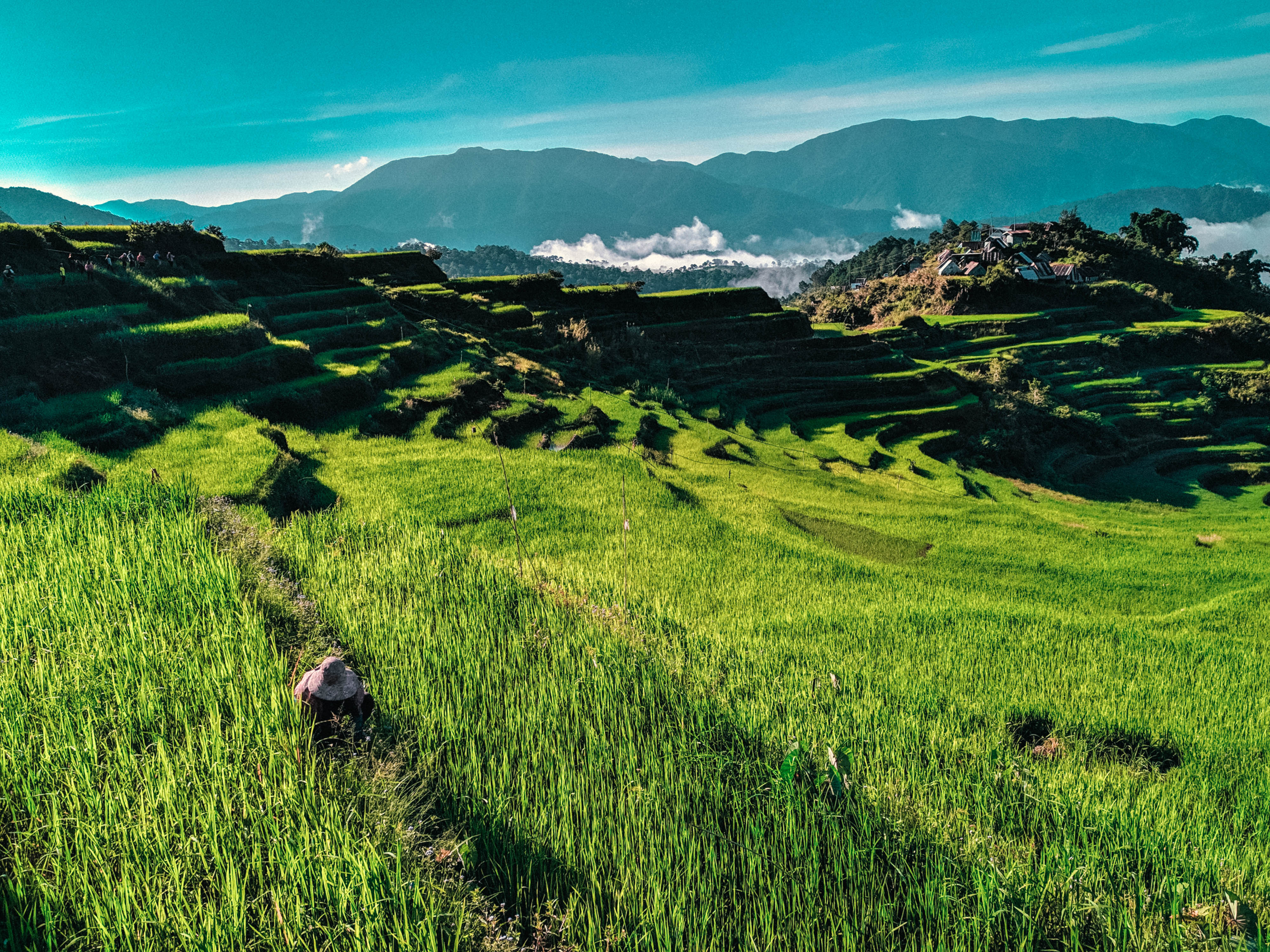 Maligcong Rice Terraces is located at Bontoc, Mountain Provice